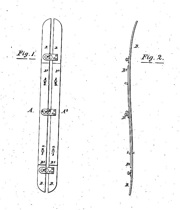 This is a picture from the patent (Re. 5216) im the corset stay invention involved in Egbert v. Lippmann